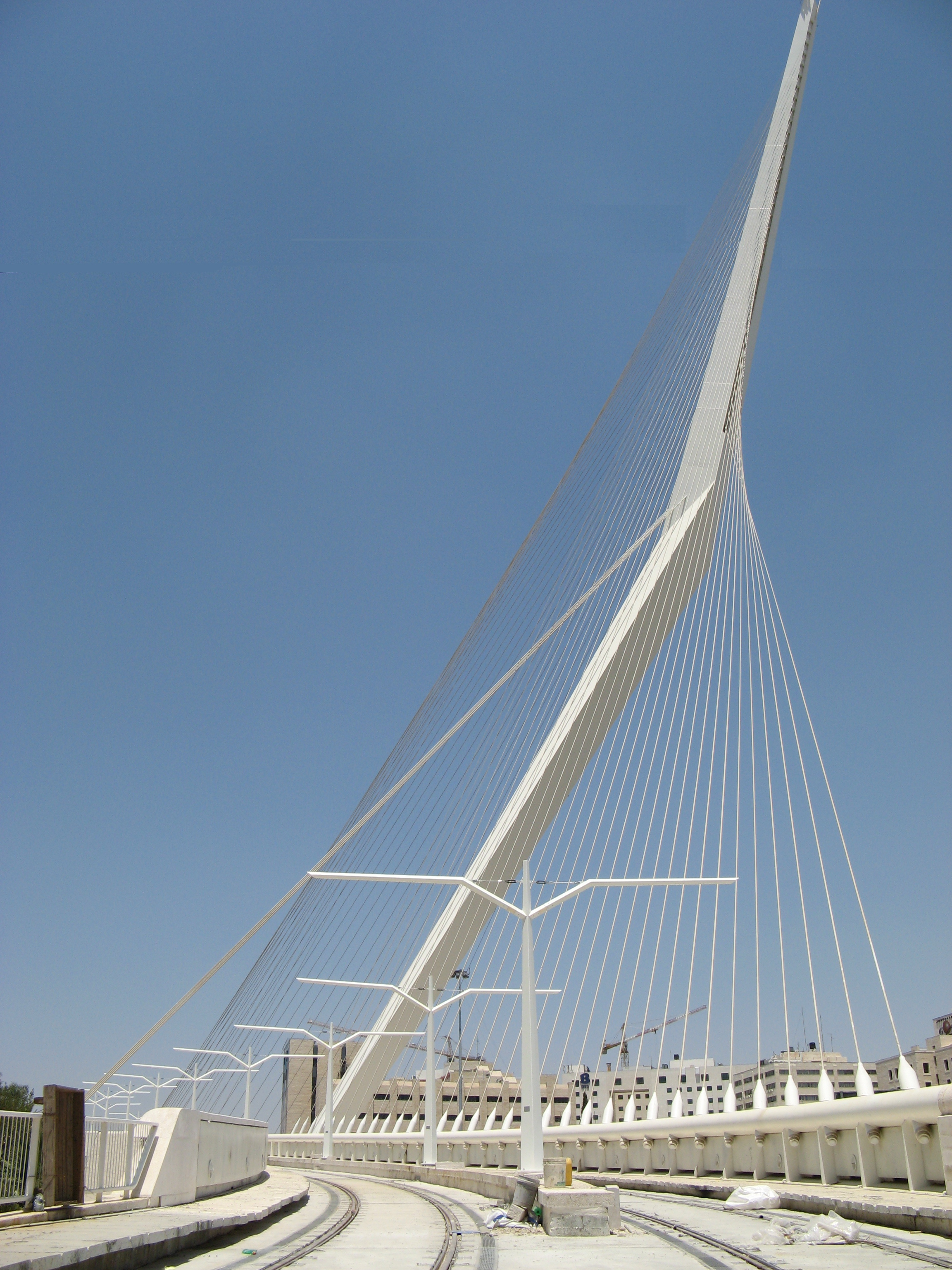 The Chords Bridge in Jerusalem with rails and power poles, May 2010